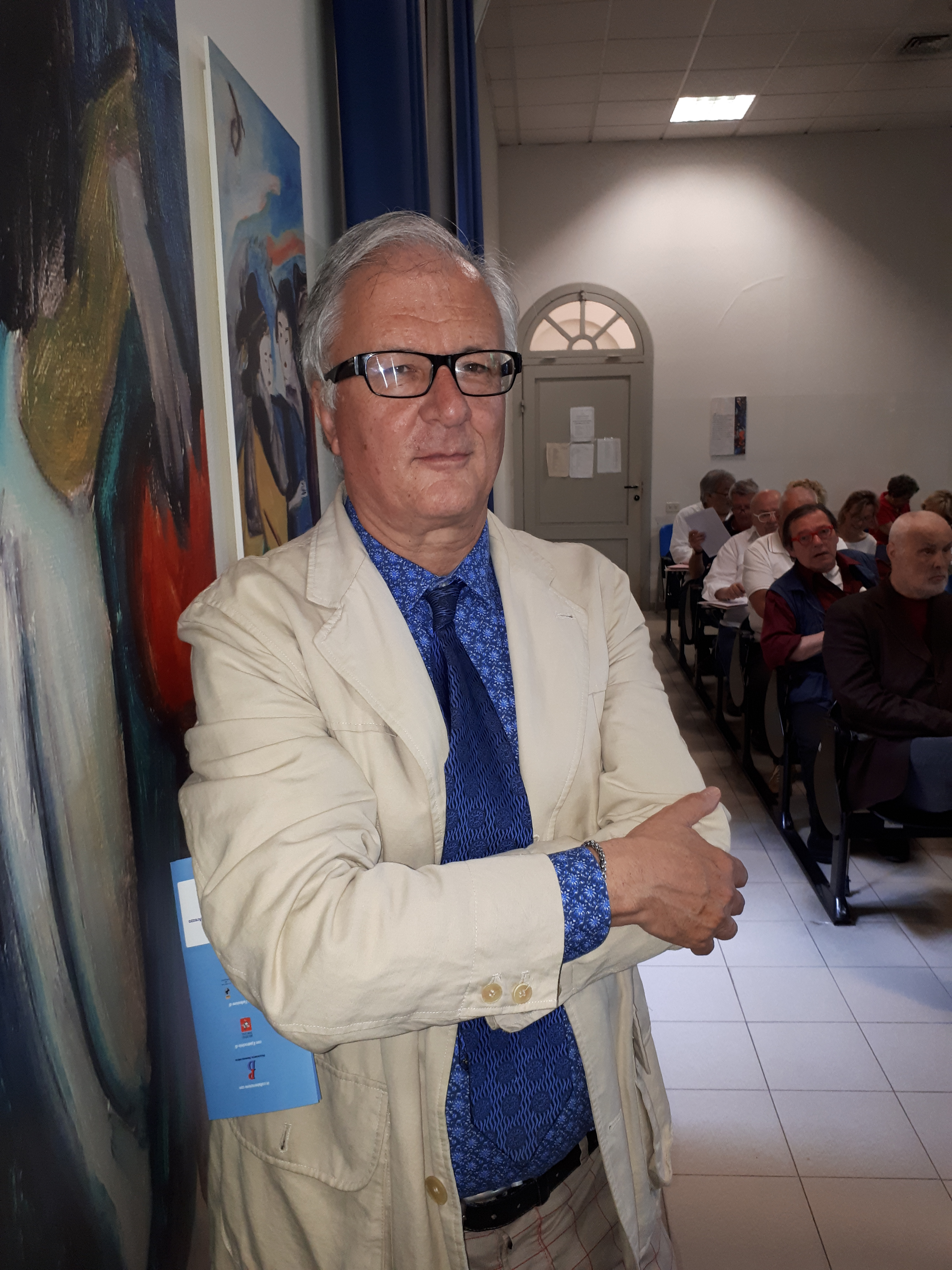 Ferdinando Abbri at Museum Galileo